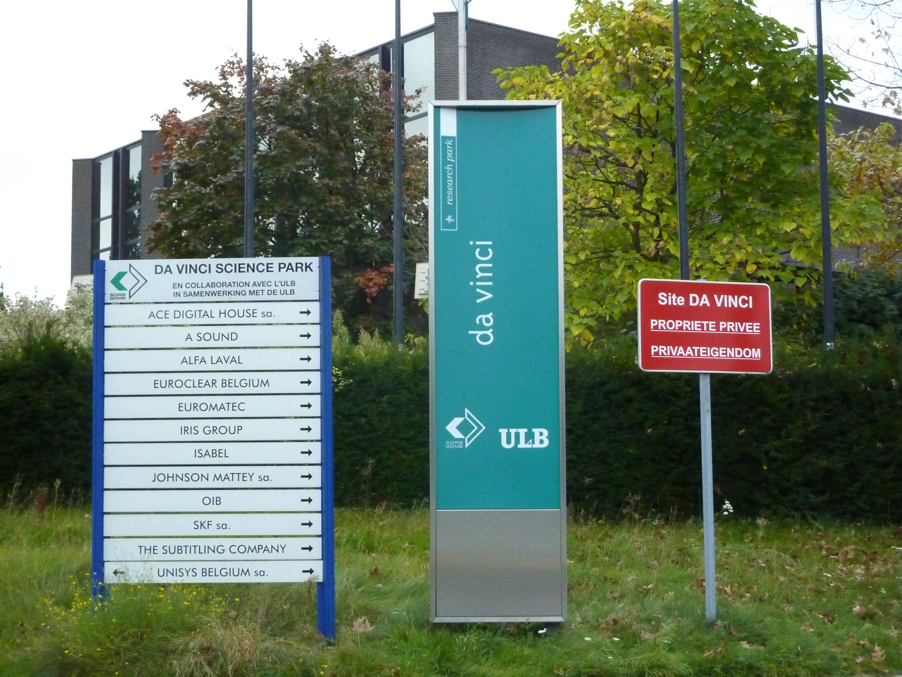 Da Vinci Research Park, Evere, Brussels, Belgium.